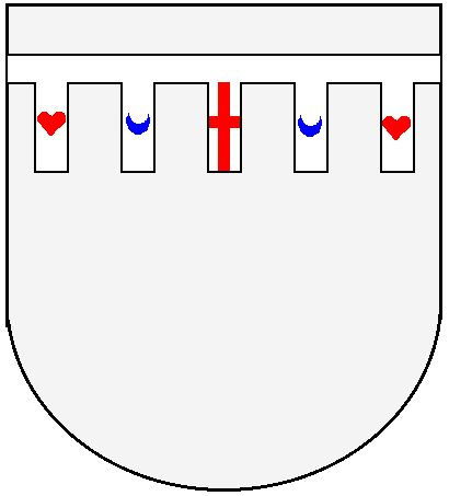 Example of a lable (Dutch:barensteel) of a grandson of a British monarch. Generic weapon as an illustration. My own drawing Robert Prummel 2007